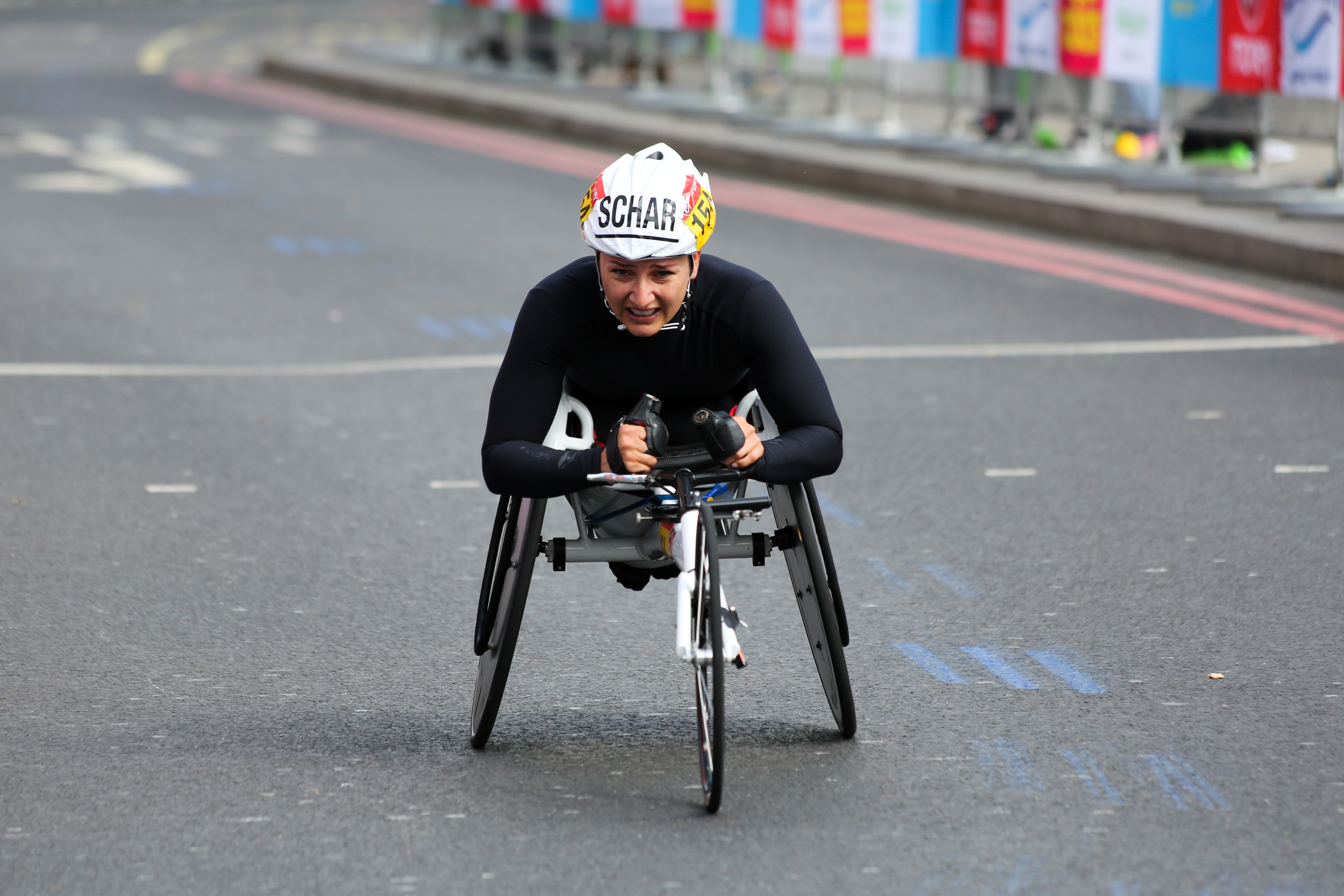 2017 London Marathon – World ParaAthletics Marathon World Cup (Wheelchair) Women winner – Manuela Schär